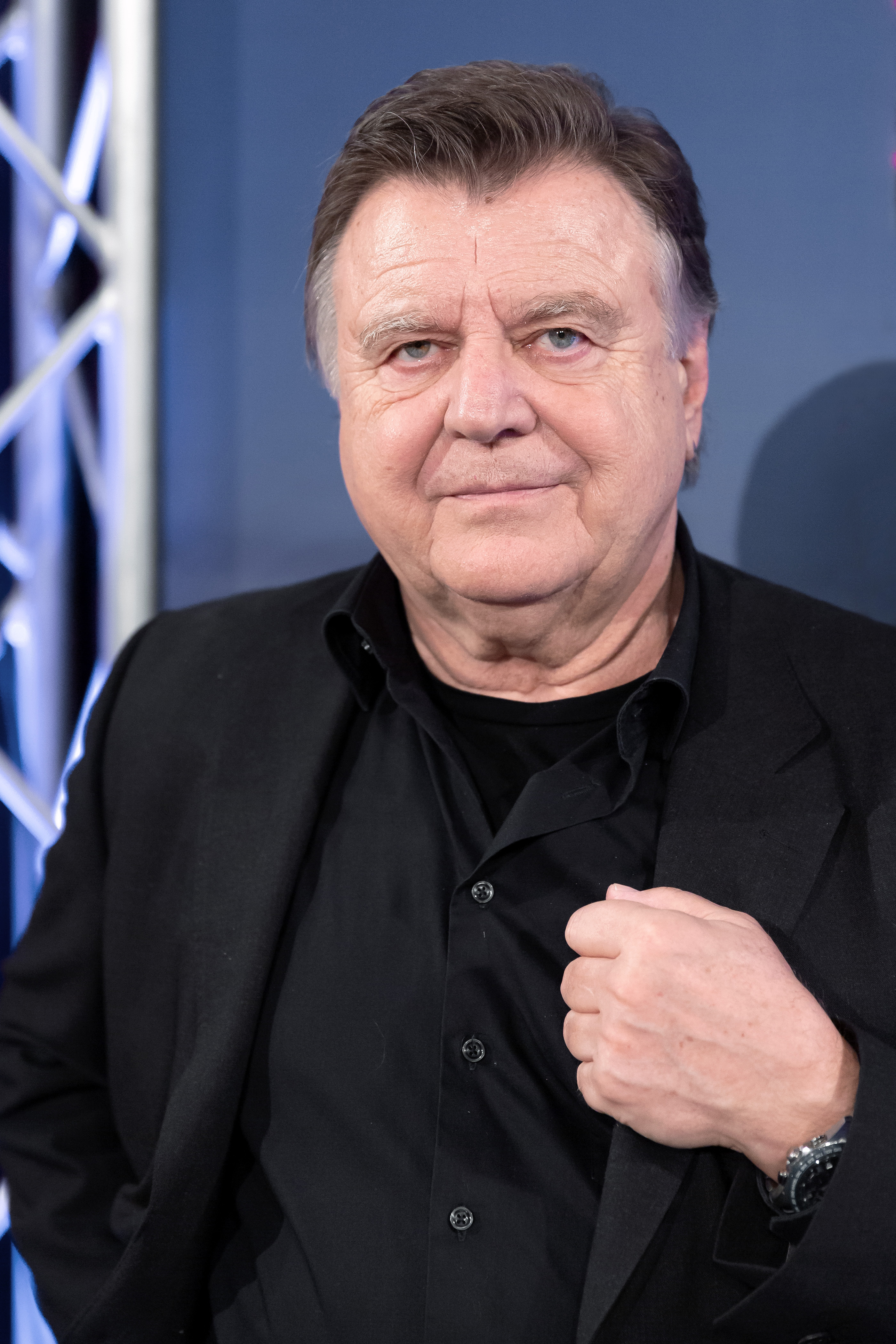 Lukas Resetarits, Austrian Cabaret Award 2017 at Urania in Vienna, Austria.